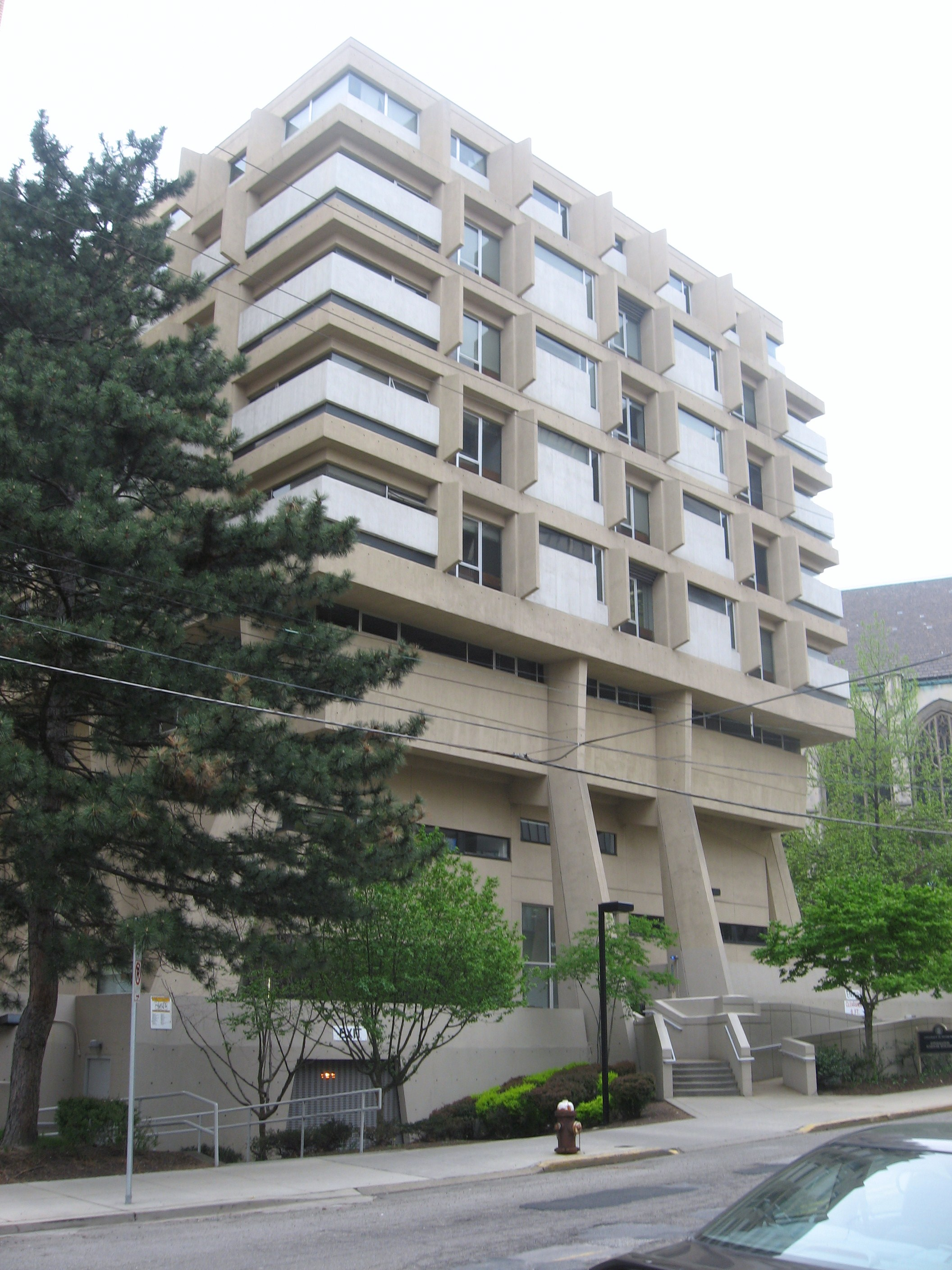 A rear view of the Information Science Building at University of Pittsburgh. Located at 135 North Bellefield Avenue, Pittsburgh 40°26′50.4″N 79°57′9.6″W / 40.447333°N 79.952667°W